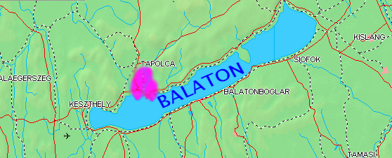 Self build after a DEMIS-MAP